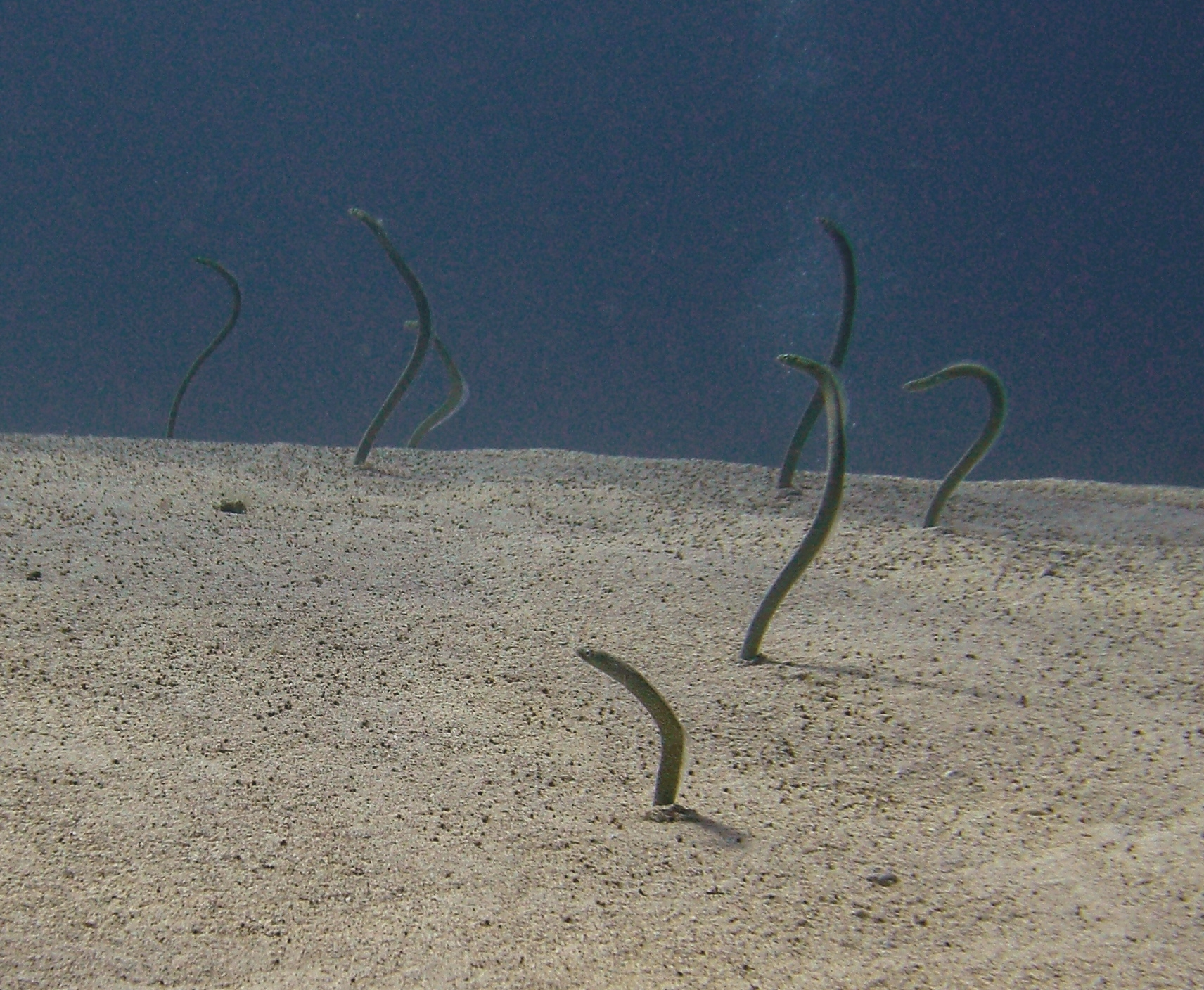 Probably Gorgasia sillneri